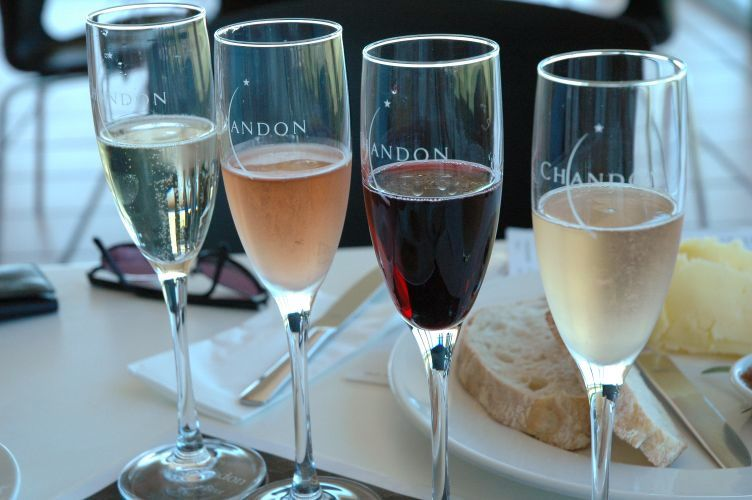 Assortment of wine from Domaine Chandon in Yarra Australia showing their sparkling Chardonnay and Pinot noir wine as well as a still pinot noir.